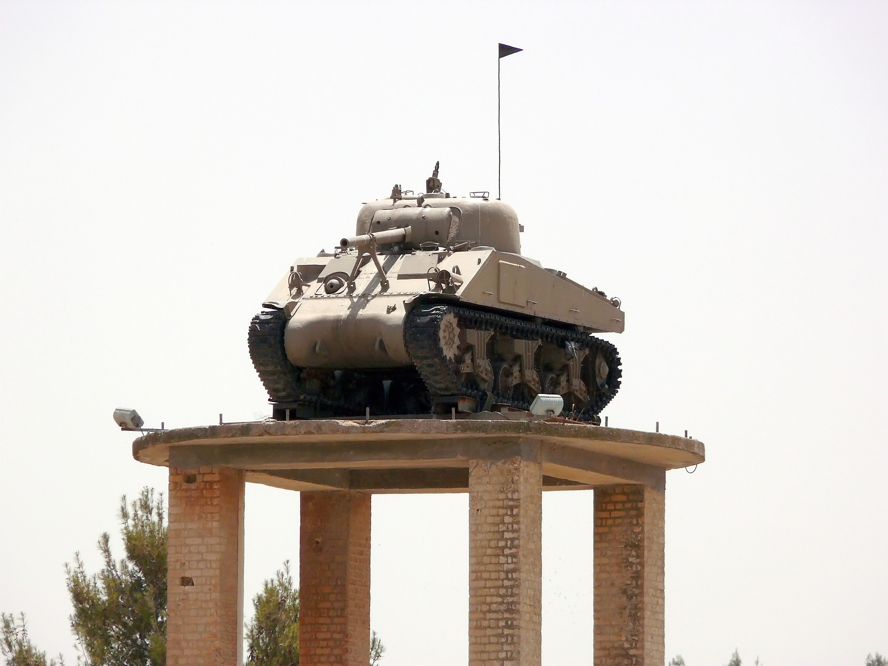 Yad la-Shiryon Museum - The Sherman on the Tower